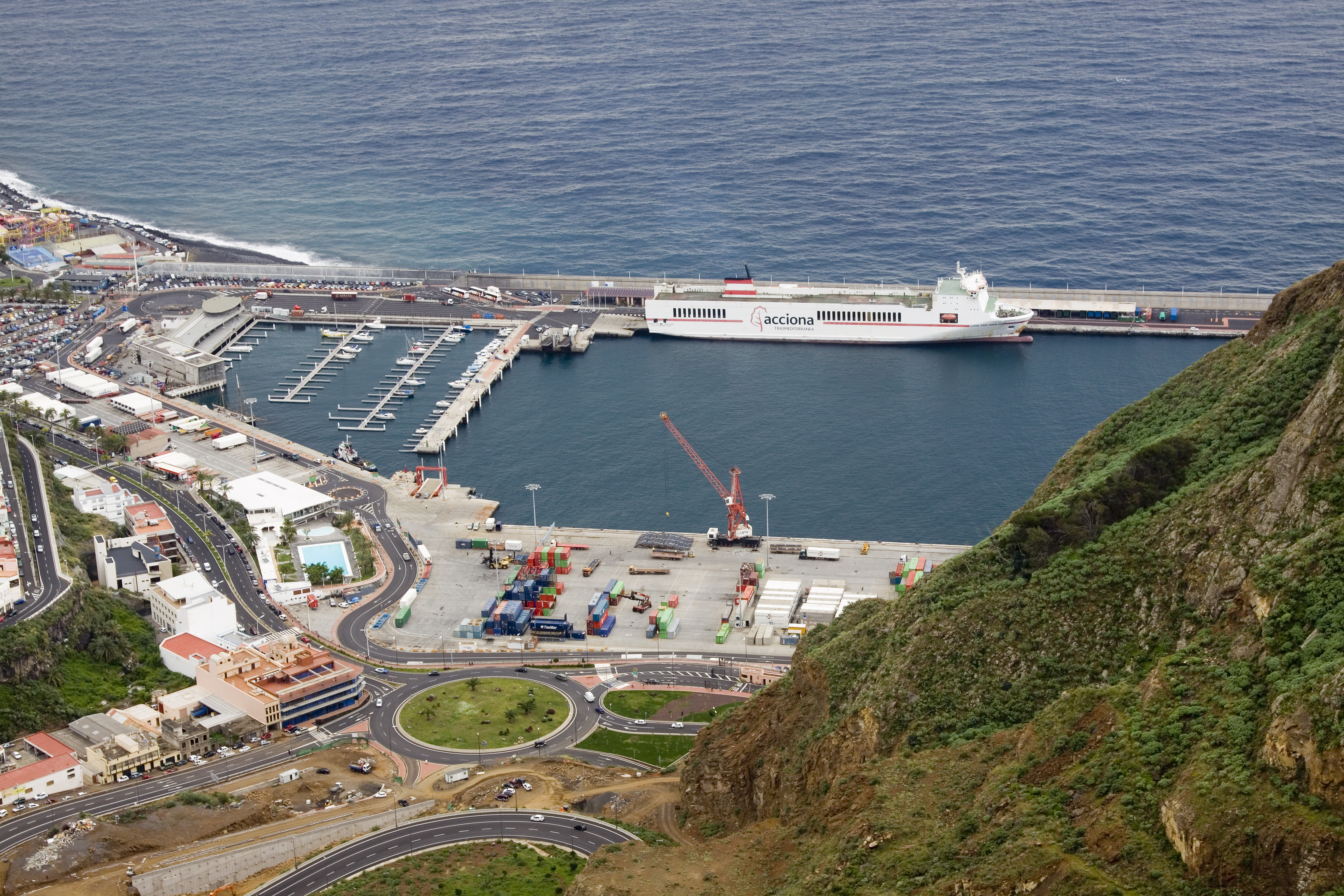 Santa Cruz de La Palma (Canary Islands), port